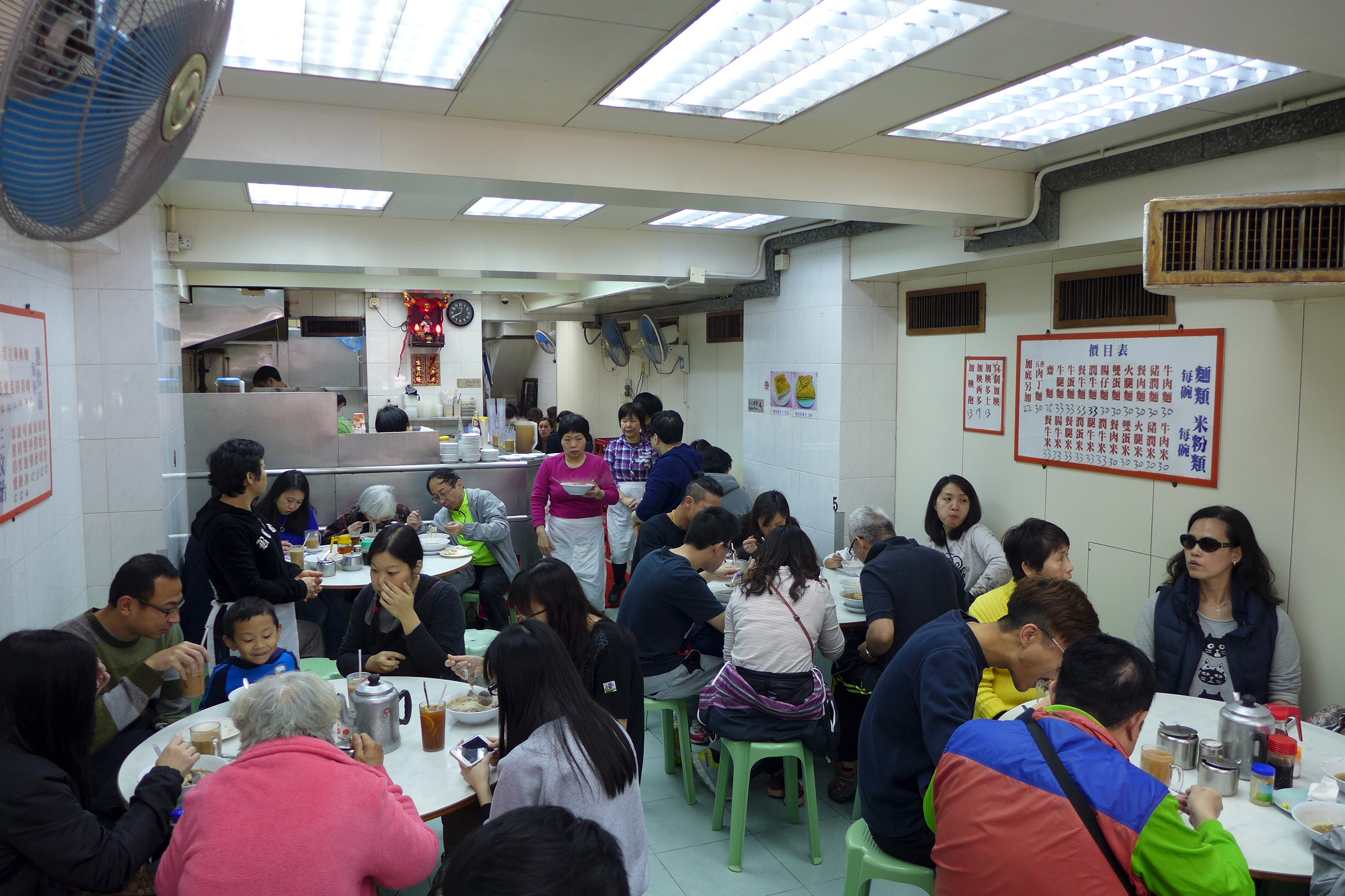 Wai Kee Noodle Cafe in Sham Shui Po